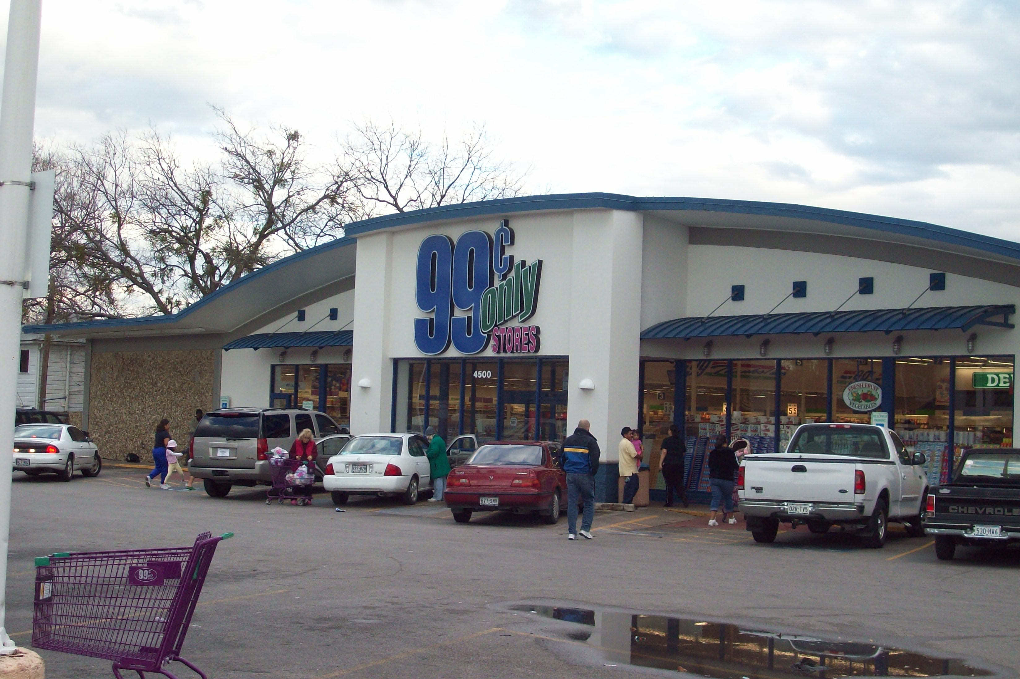 99 Cents Only store - 4500 Live Oak, Dallas, Texas This location used to be a Carnival supermarket. This is also a former Safeway location.